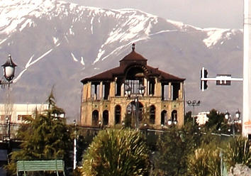 Kakh Eshrat-Abad (Eshrat Abad Palace) Tehran, Iran